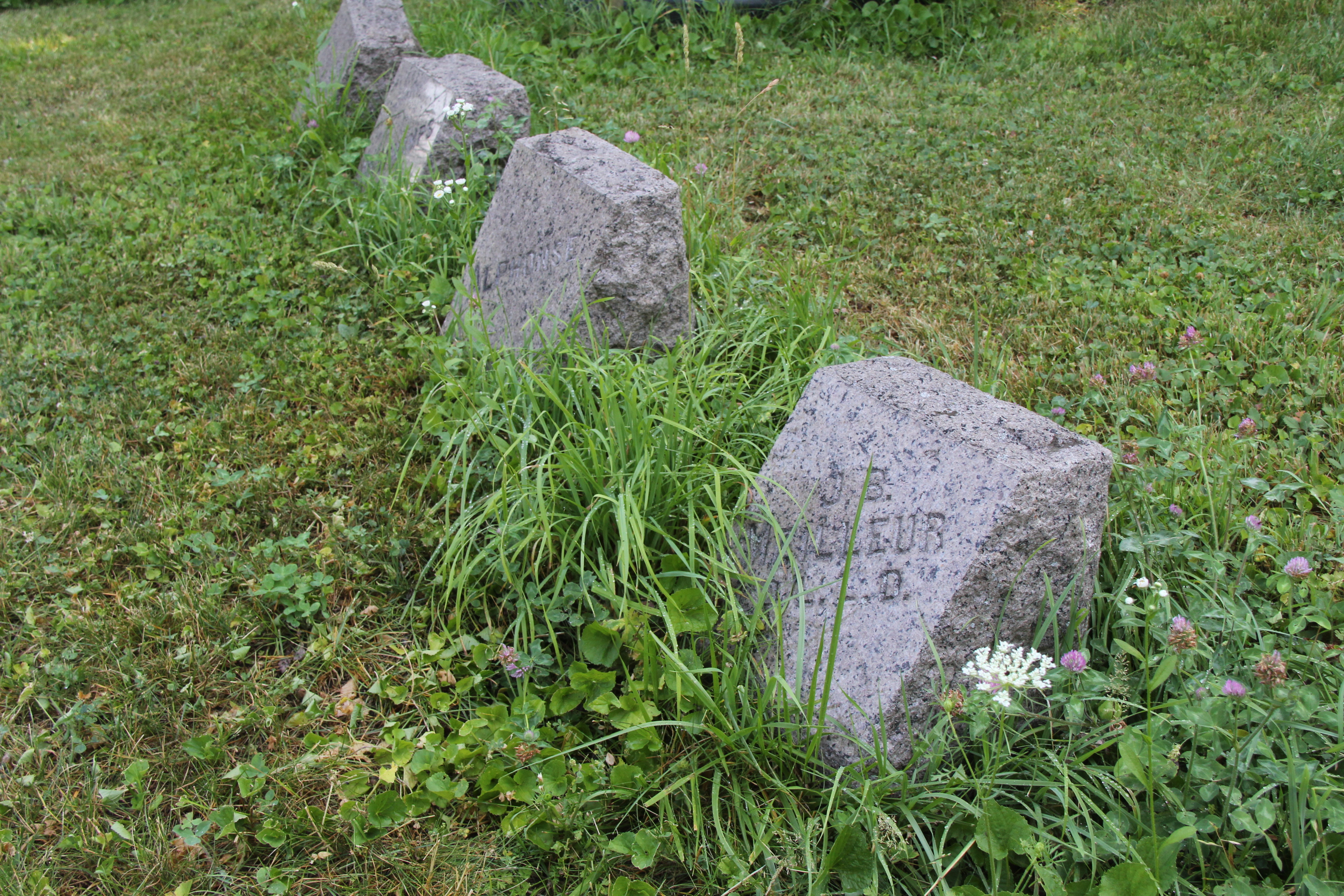 Jean-Baptiste Meilleur’s tombstone, Notre-Dame-des-Neiges Cemetery, Montreal.